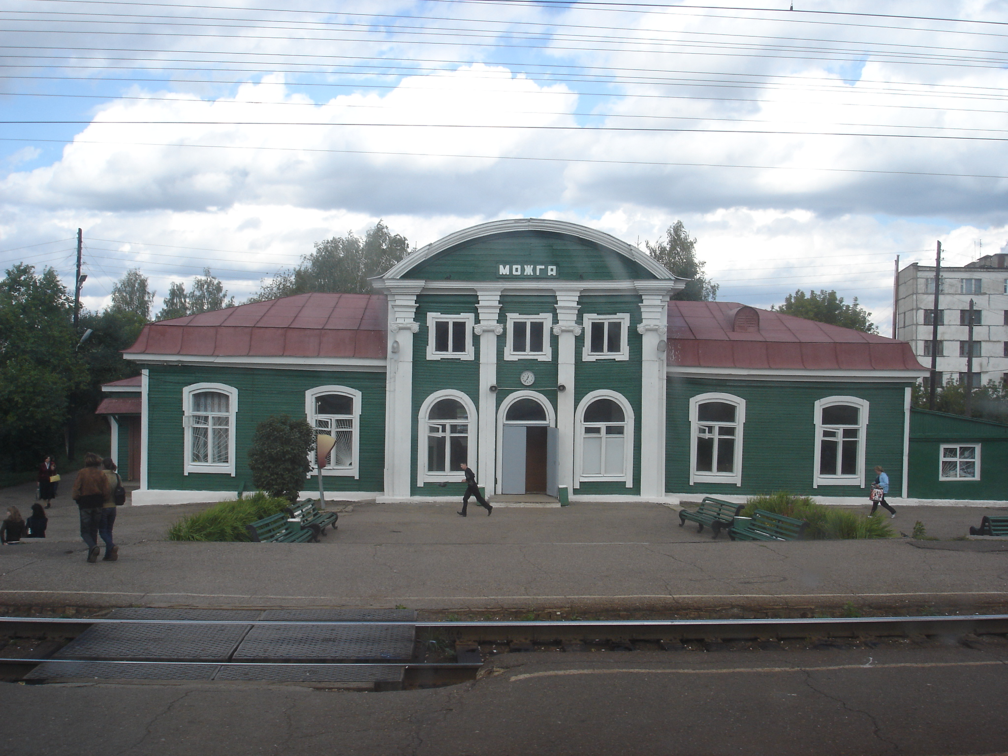 Mozhga. Russian city, Udmurtia region. Railroad station